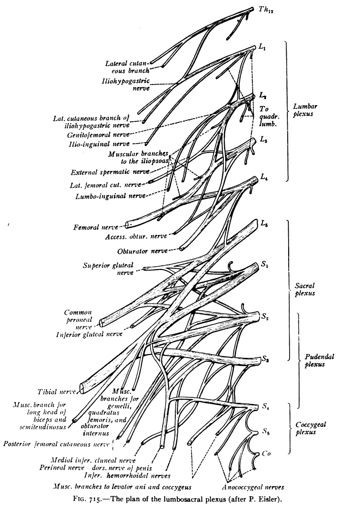 An anatomical illustration from Sobotta's Human Anatomy 1908